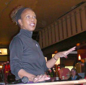 Alfre Woodard stumps for Barack Obama in New Philadelphia, Ohio on 2008-02-20